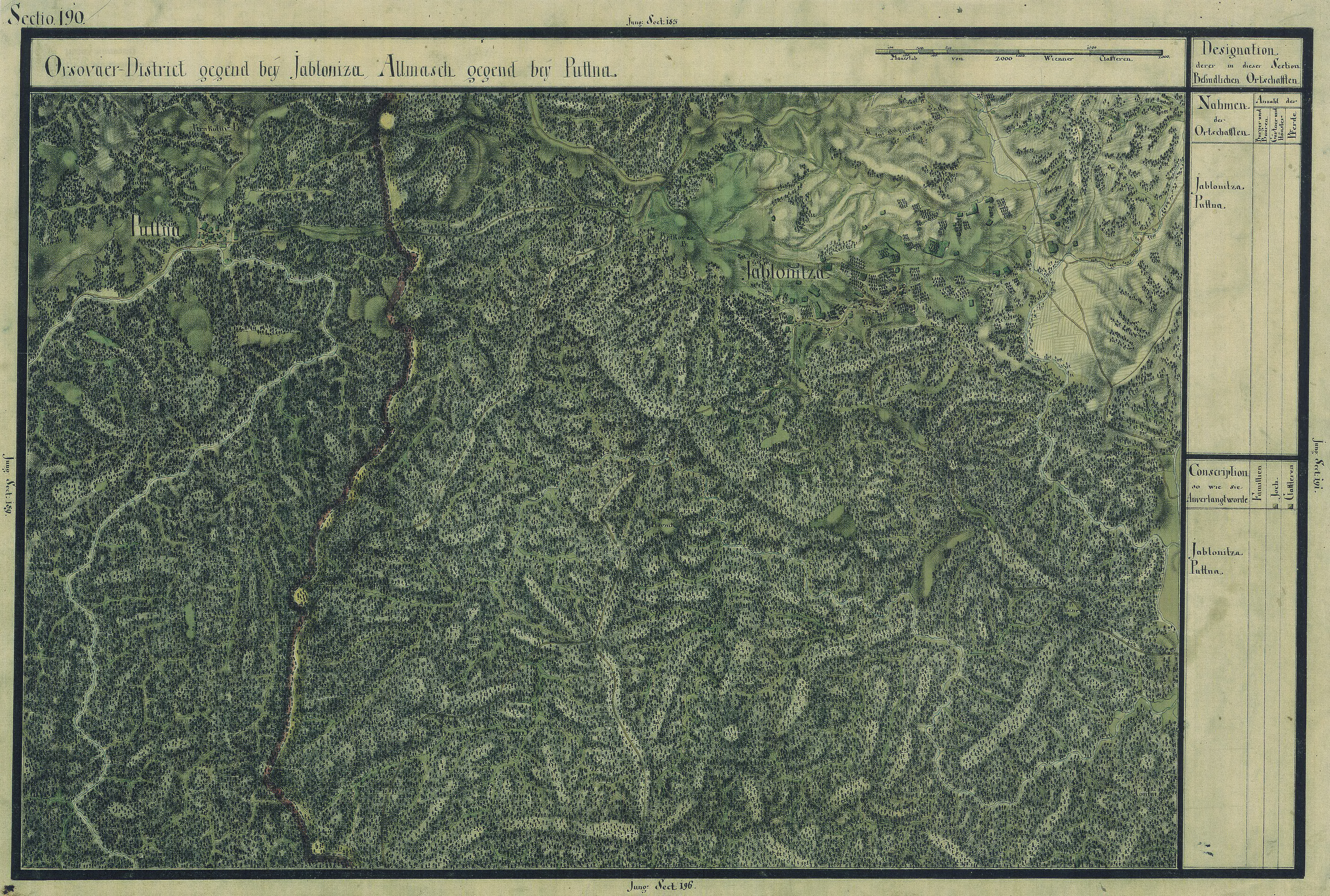 The Banat region in the cadastral maps: Josephinische Landesaufnahme, 1769-72. Josephinische Landaufnahme pg190